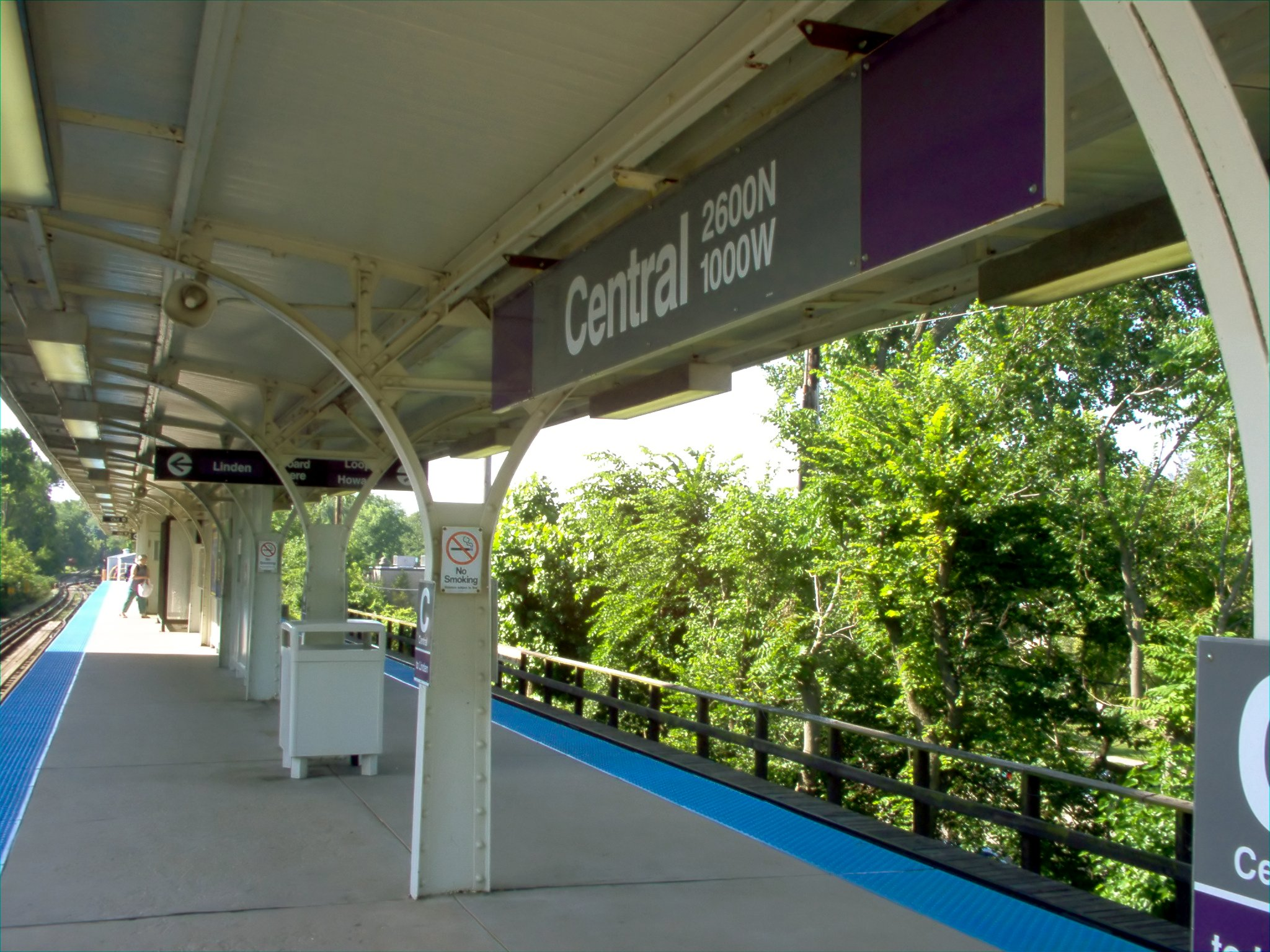 Photo by Gerald Farinas of the Central Street CTA station in Evanston, Illinois taken on July 9, en:2006.